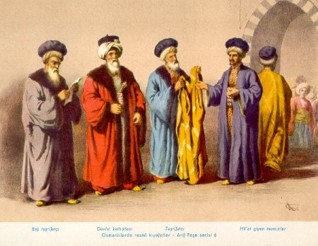 Official uniforms of the Ottomans, Arif Paşa series. Baş Teşrifatçı (Head Usher), Devlet Kethüdası (Deputy Prime Minister and Internal Affairs Minister), Teşrifatçı (Usher), Hil’at Giyen Memurlar (Civil Servants in uniform)